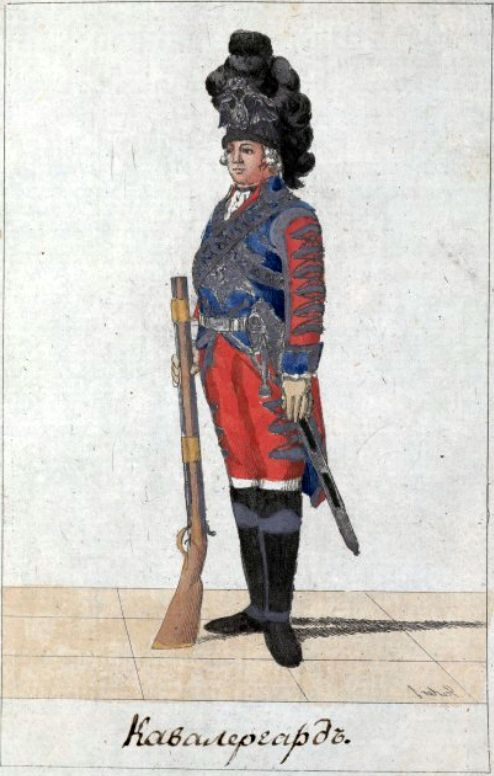 Chevalier guardsman of Russian Army